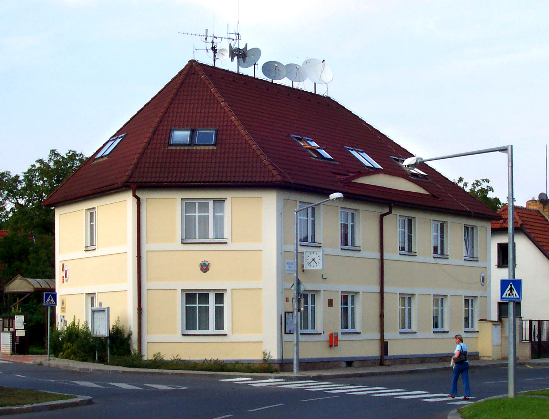 Town hall at Starodubečská street in Dubeč, Prague